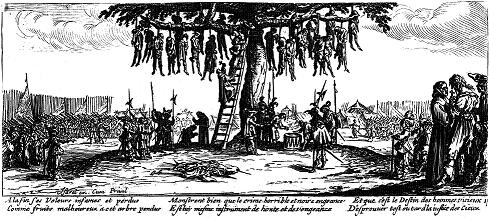 The tree of the hanged- Callot